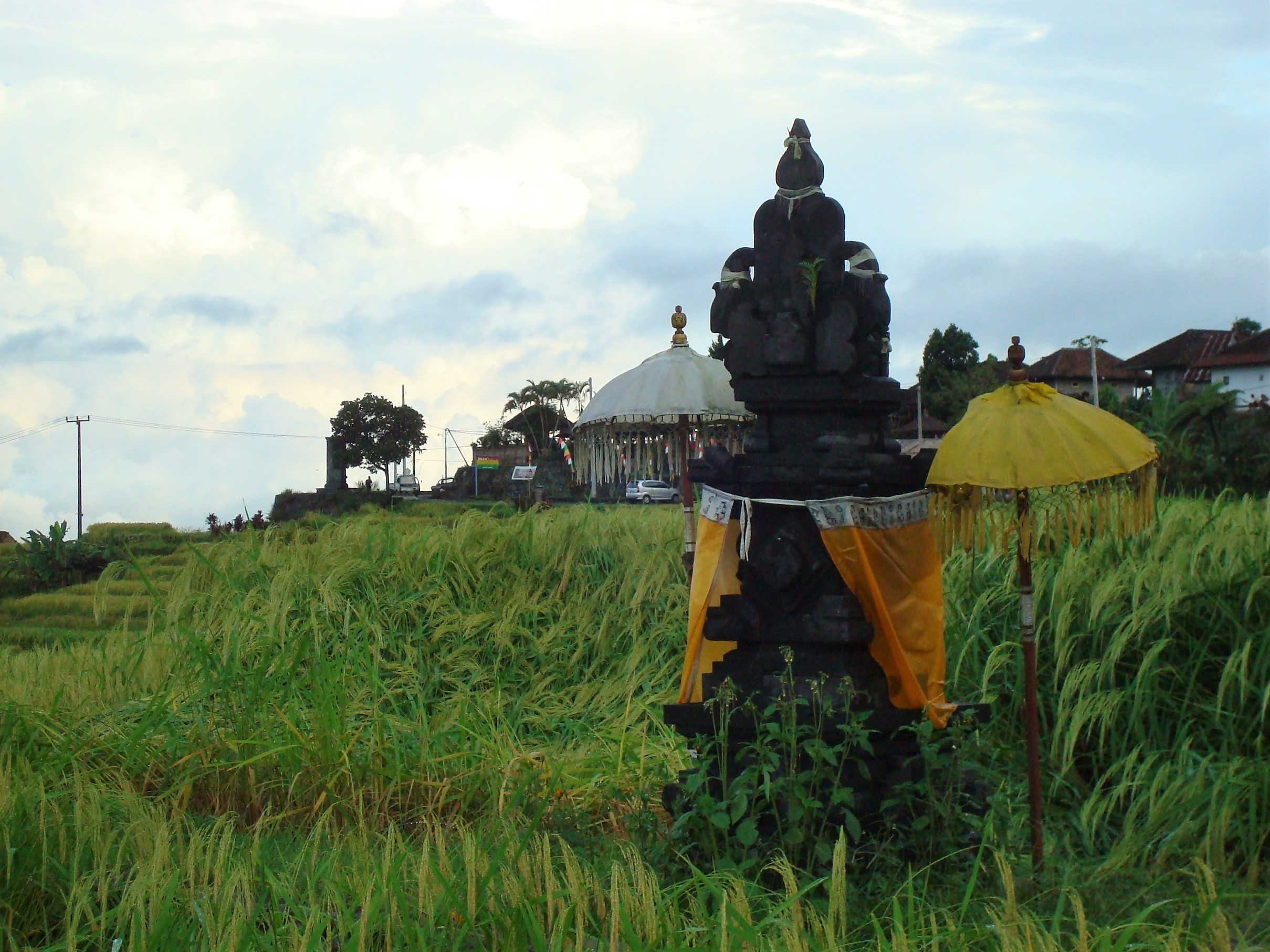 Balinese altar at Rice terraces of Gunung Batukaru. This Subak landscape is a UNESCO World Heritage Site since 2012.